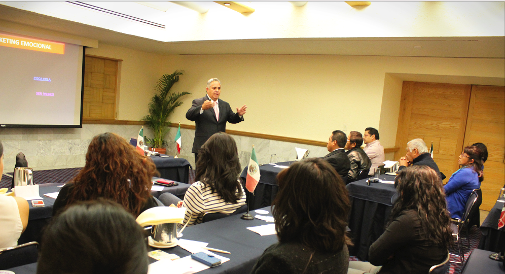 Galo Limón, President of the Better Governors Institute, at the Training Seminar for Public Servants